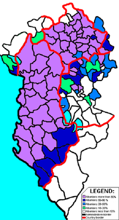 Presence of Albanians in "Greater Albania"